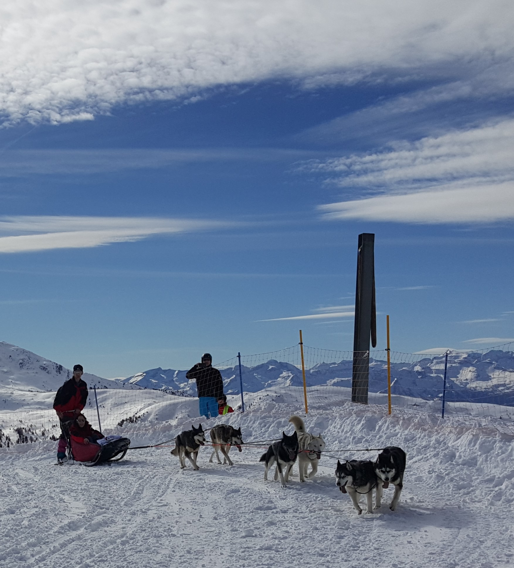 Dog sled races in Innerkrems